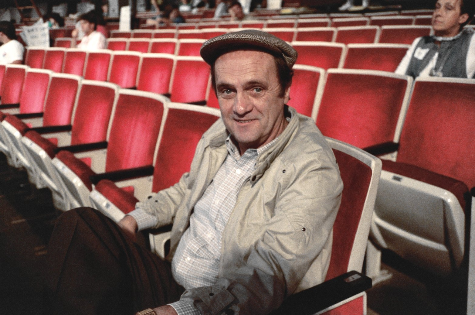 Bob Newhart - 39th Emmy Awards - rehearsal.